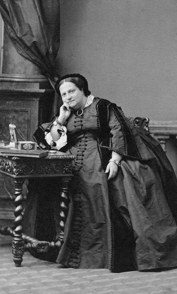 Maria Christina of the Two Sicilies (1806-1878), Queen of Spain, widow of Ferdinand VII